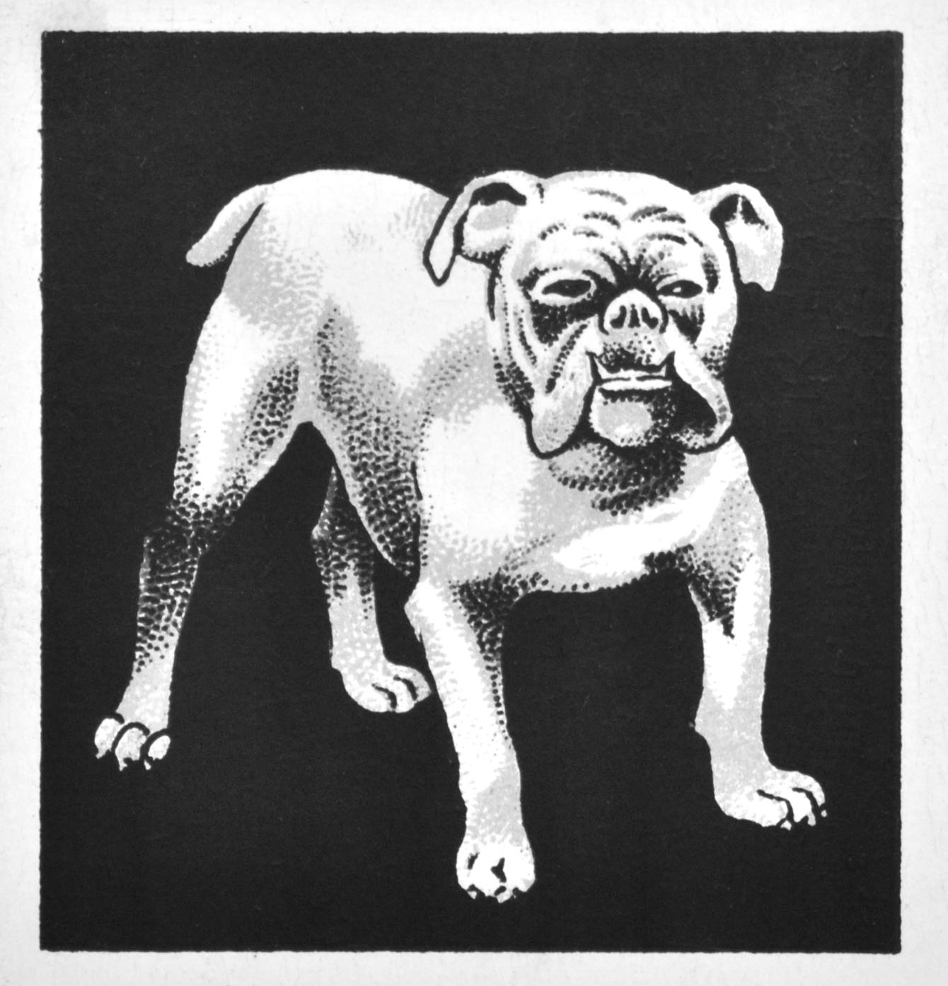 Formation sign for the British VI Corps in the First World War